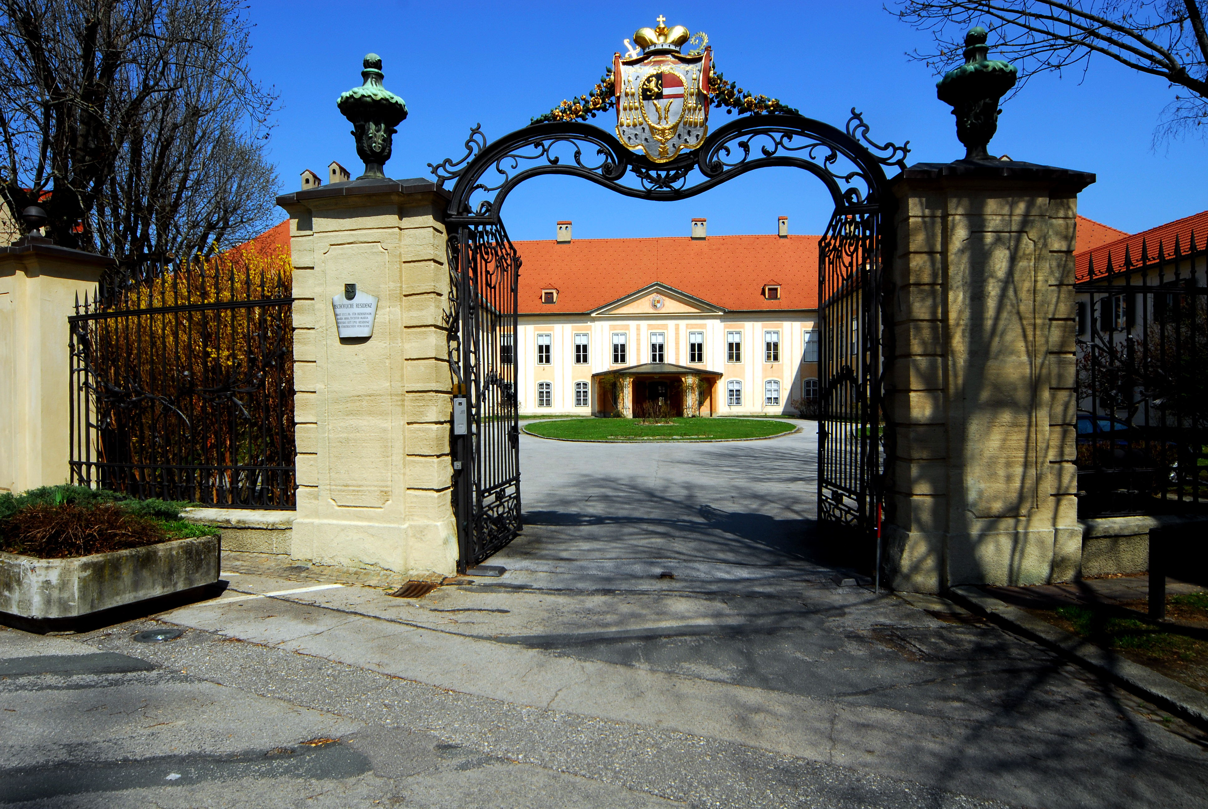 Coat of arms of bishops of the Roman Catholic Diocese Gurk over the entrance gate to the episcopal palace, built from 1769 to 1776 after plans by the Vienna master builder Nikolaus von Pacassi, Mariannengasse #2, 6th district «Völkermarkter Vorstadt», Klagenfurt on the Lake Woerth, Carinthia, Austria, EU